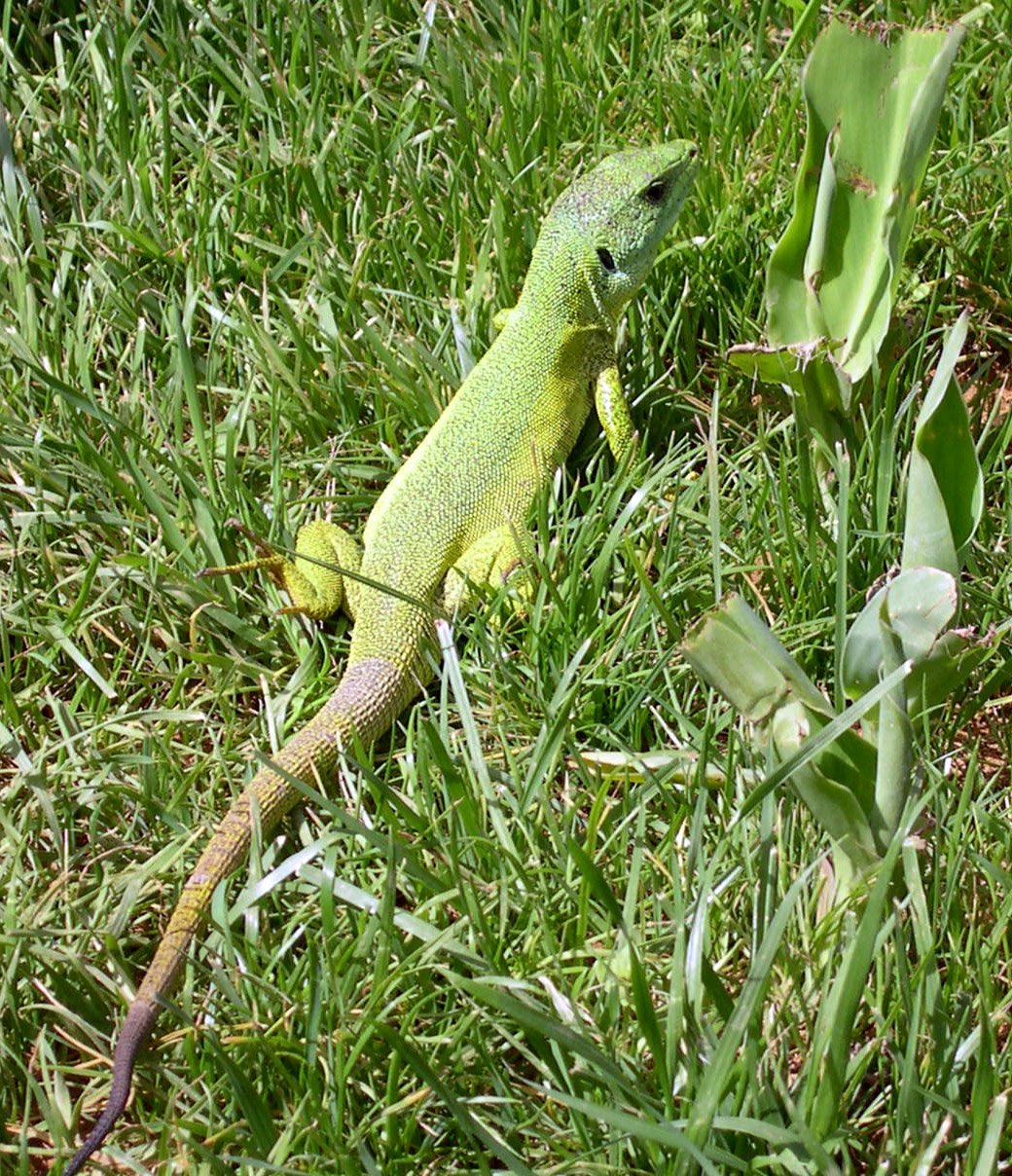 A Green Lizard (Lacerta trilineata) on Crete, Greece.